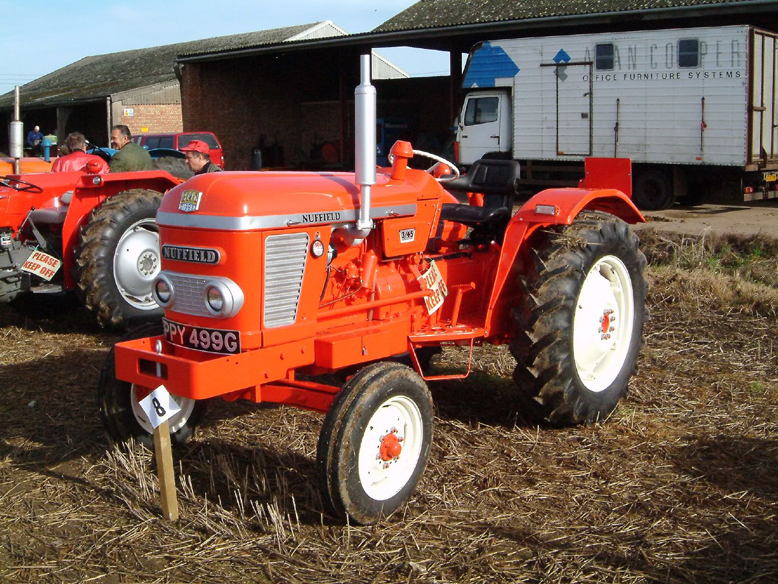 a Nuffield 3/45